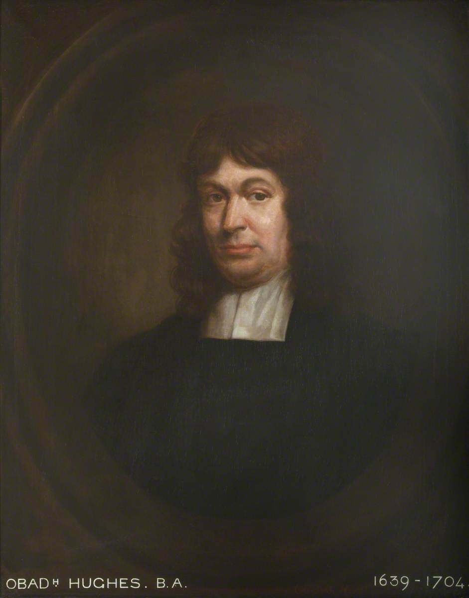 Portrait of Obadiah Hughes (1639–1704), English nonconformist minister.